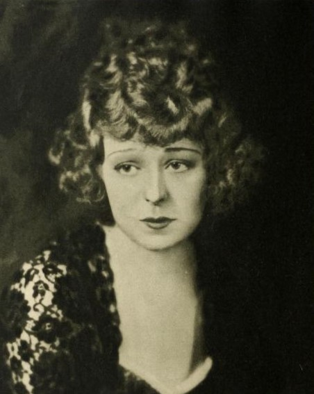 Publicity photo of Seena Owen from Stars of the Photoplay. Seena Owen who displays such remarkable talent on the screen, has had a limited theatrical experience-in fact only six weeks. She was born in Spokane. Washington, November 14, 1896. She started her education at Bruno Hall, Spokane, and completed the same in Copenhagen, Denmark. She has appeared in "Intolerance," "The Face in the Fog," "The Go-Getter," "Back Pay," "Snowblind," "The Leavenworth Case" and "Unseeing Eyes." She stands five feet, seven inches in height and has a very captivating smile, expressive blue eyes and blonde hair. Not married.